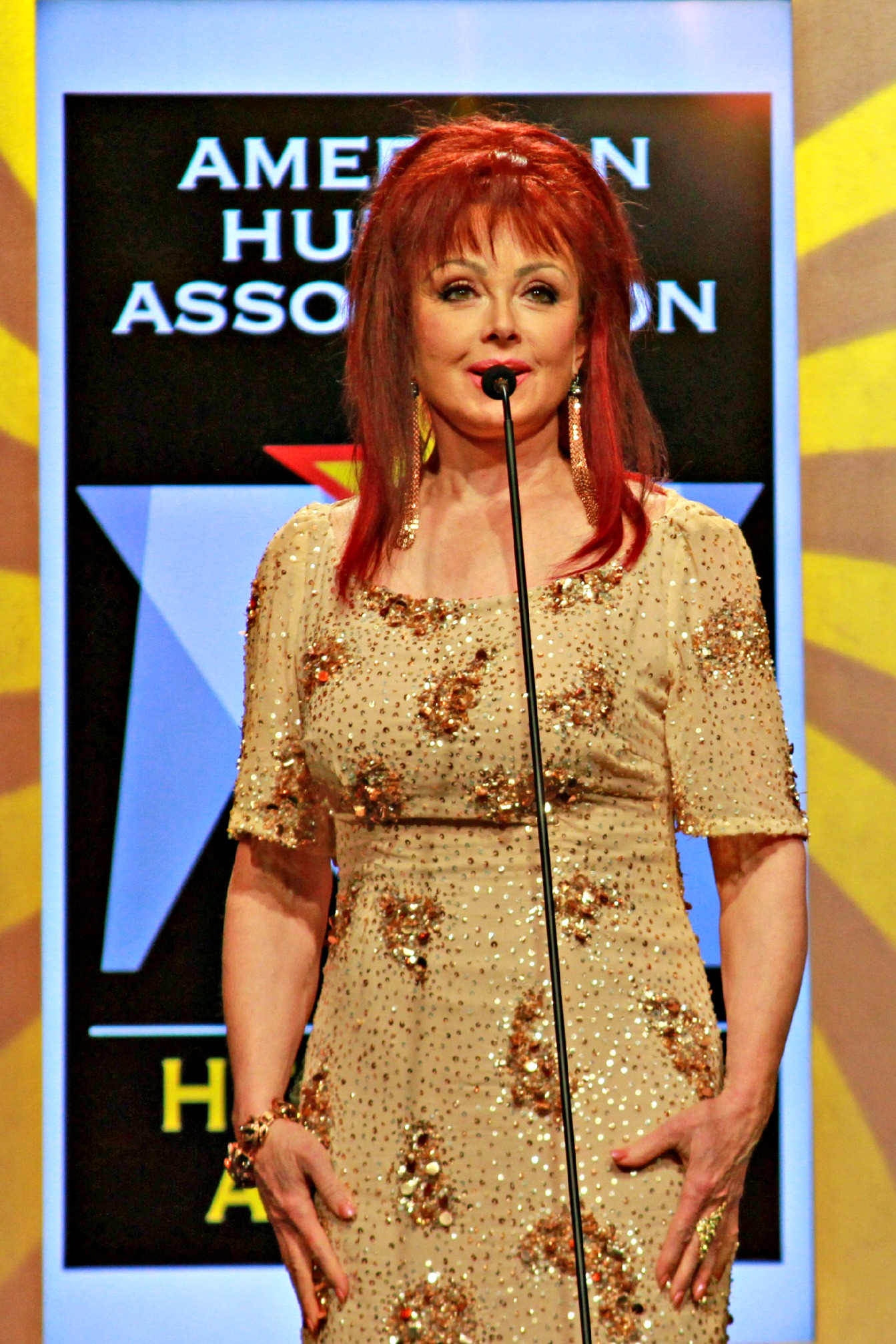 Naomi Judd at 2012 American Humane Association presenting Military Dog Award Category